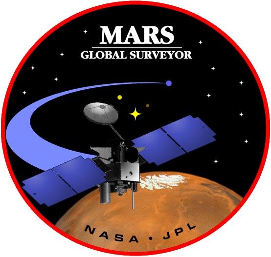 This is the official Mars Global Surveyor patch, and shows the spacecraft above Mars with stars in the background. A cartoon of the spacecraft trajectory can be seen leaving Earth (blue dot) and travelling around the Sun, Venus and Mercury to reach Mars. MGS launched in late 1996.